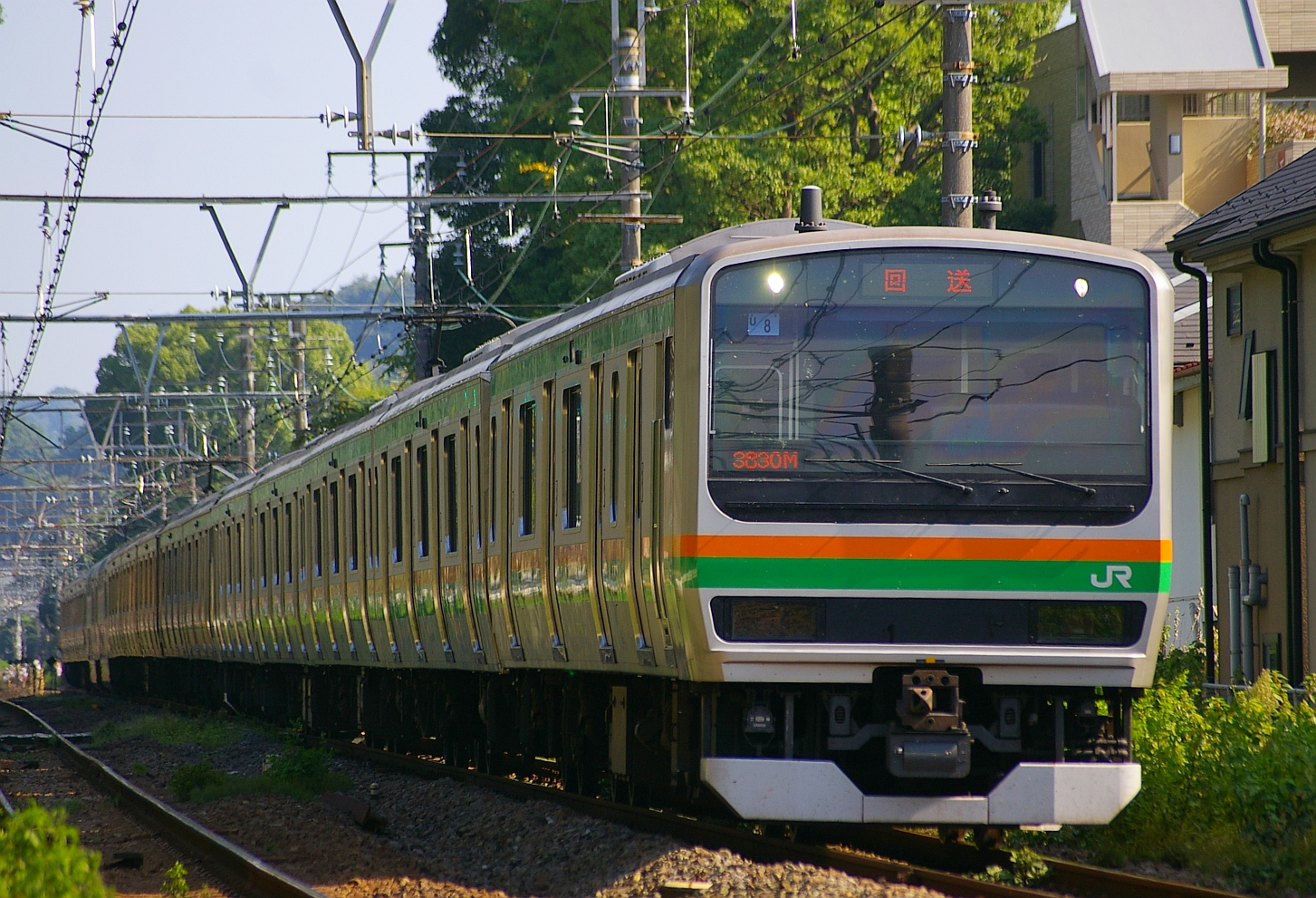 JR East E231 series, serving Shonan-Shinjuku Line, Tokaido Line, Takasaki Line and Utsunomiya Line (Taken between Kita-Kamakura and Ofuna, Yokosuka Line)